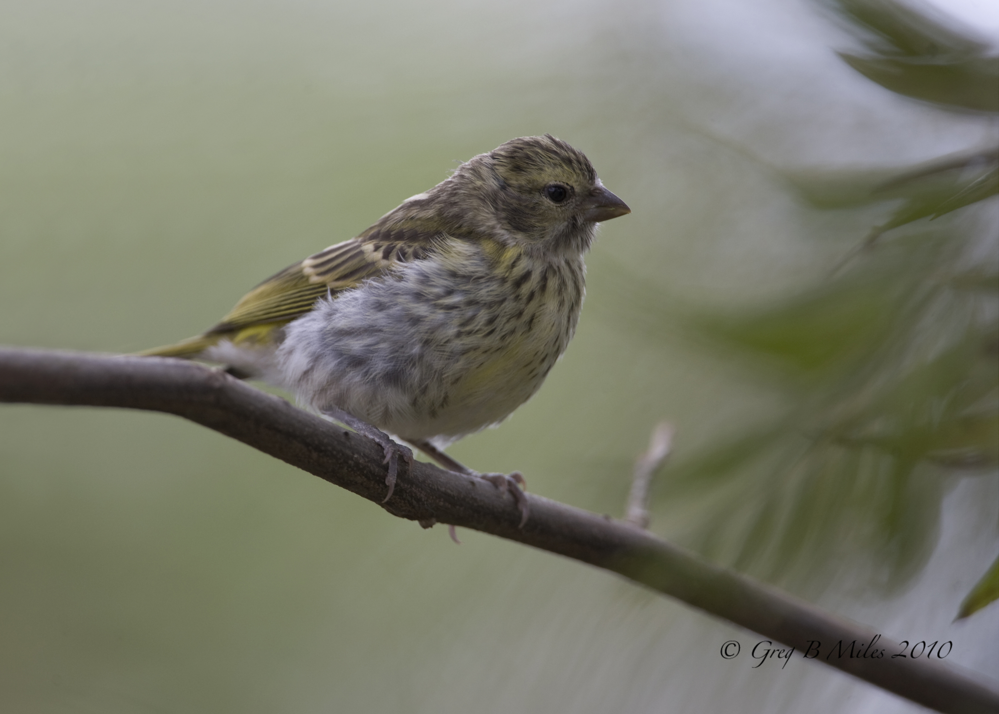 Photographed at Narok in Kenya.